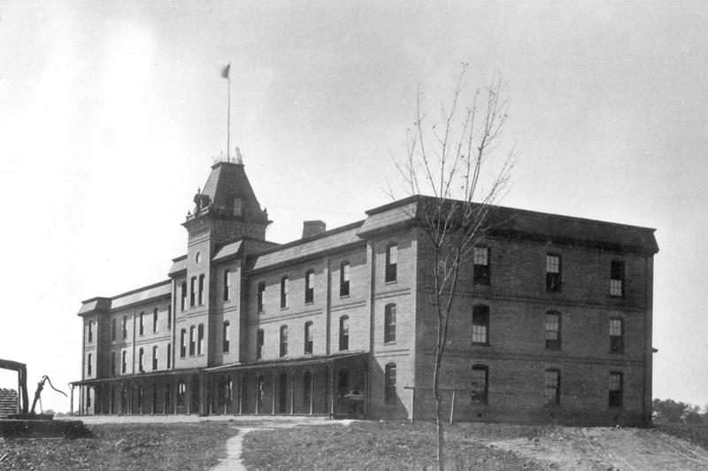 VPI Lane Hall circa 1888-89, from the Digital Library Archives at Virginia Tech, the original author is unknown.